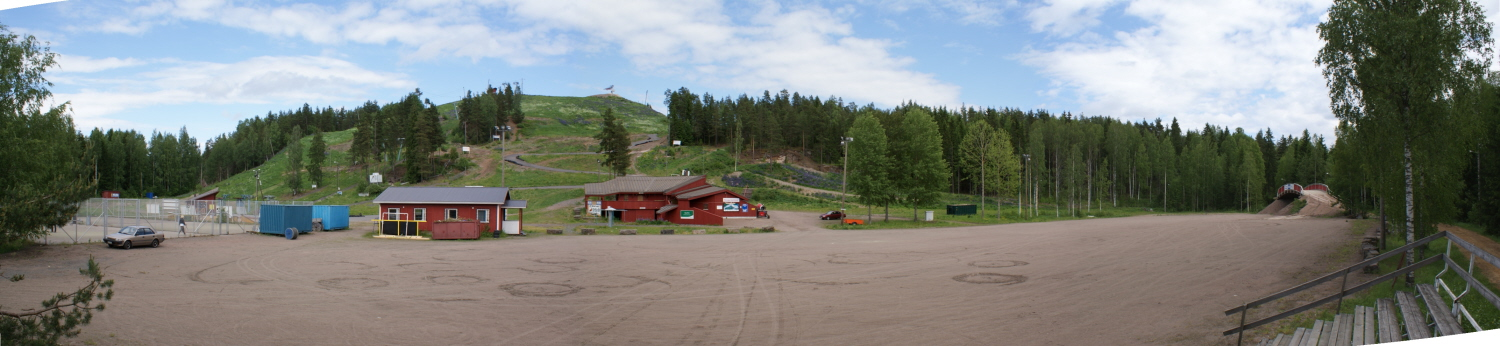 Panorama picture from Mielakka ski resort in summer.